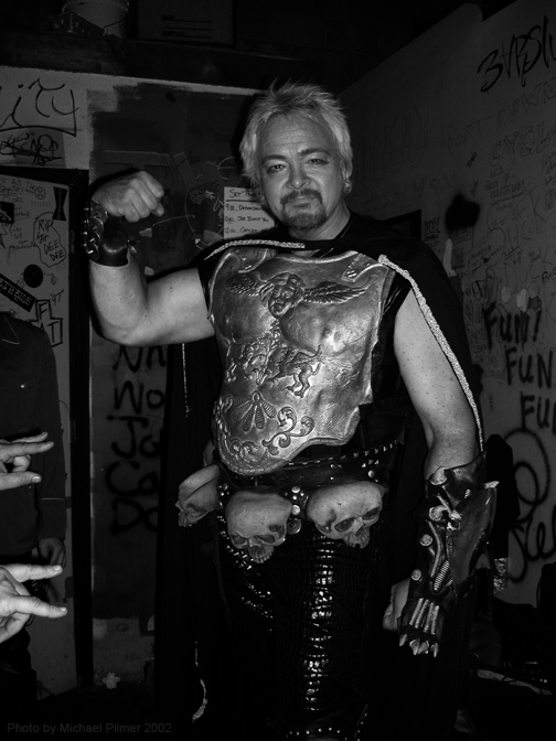 THOR backstage at KINGS in Raleigh, NC - 2002. Photo by Michael Pilmer.